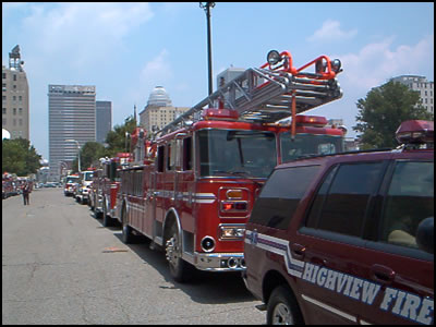 Fire Departments waiting to be featured on the WHAS Crusade for Children